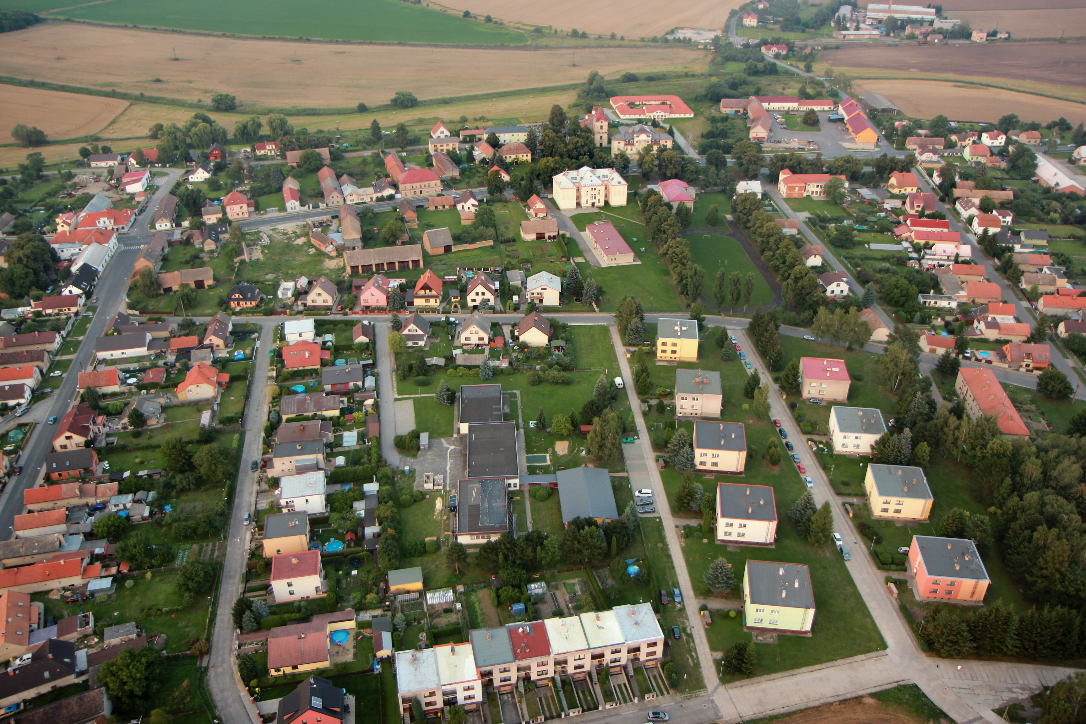 West view of Luštěnice village, Czech Republic